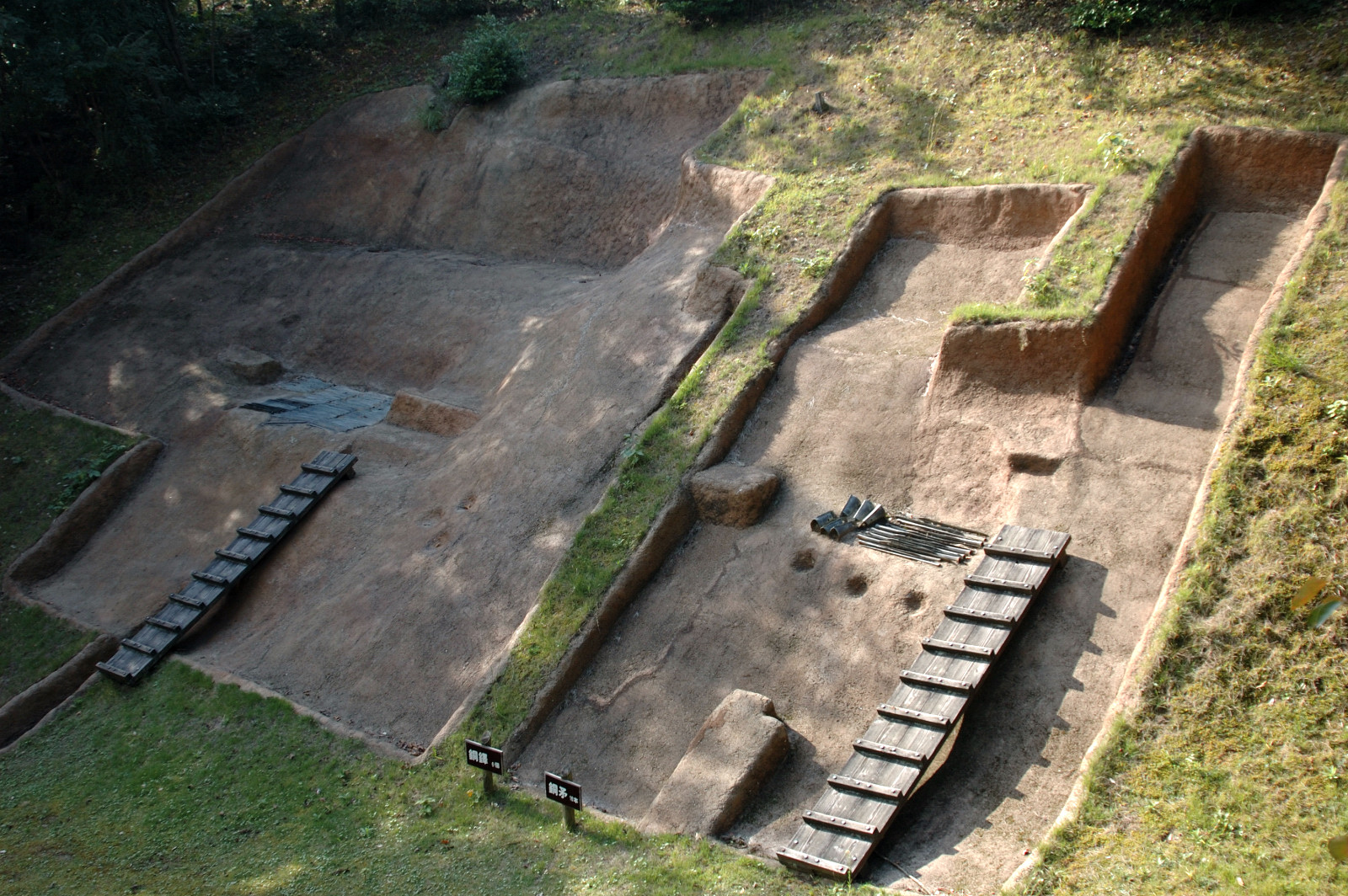 Koujindani remains discovery site of bronze swords and halberds and doutaku